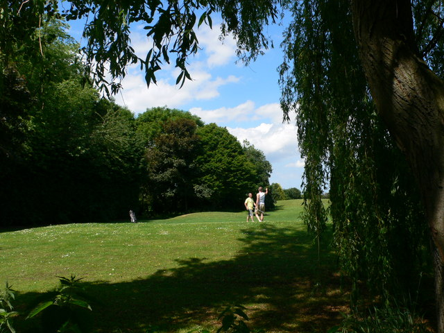 Westminster Park Part of the 9-hole golf course in Westminster Park.